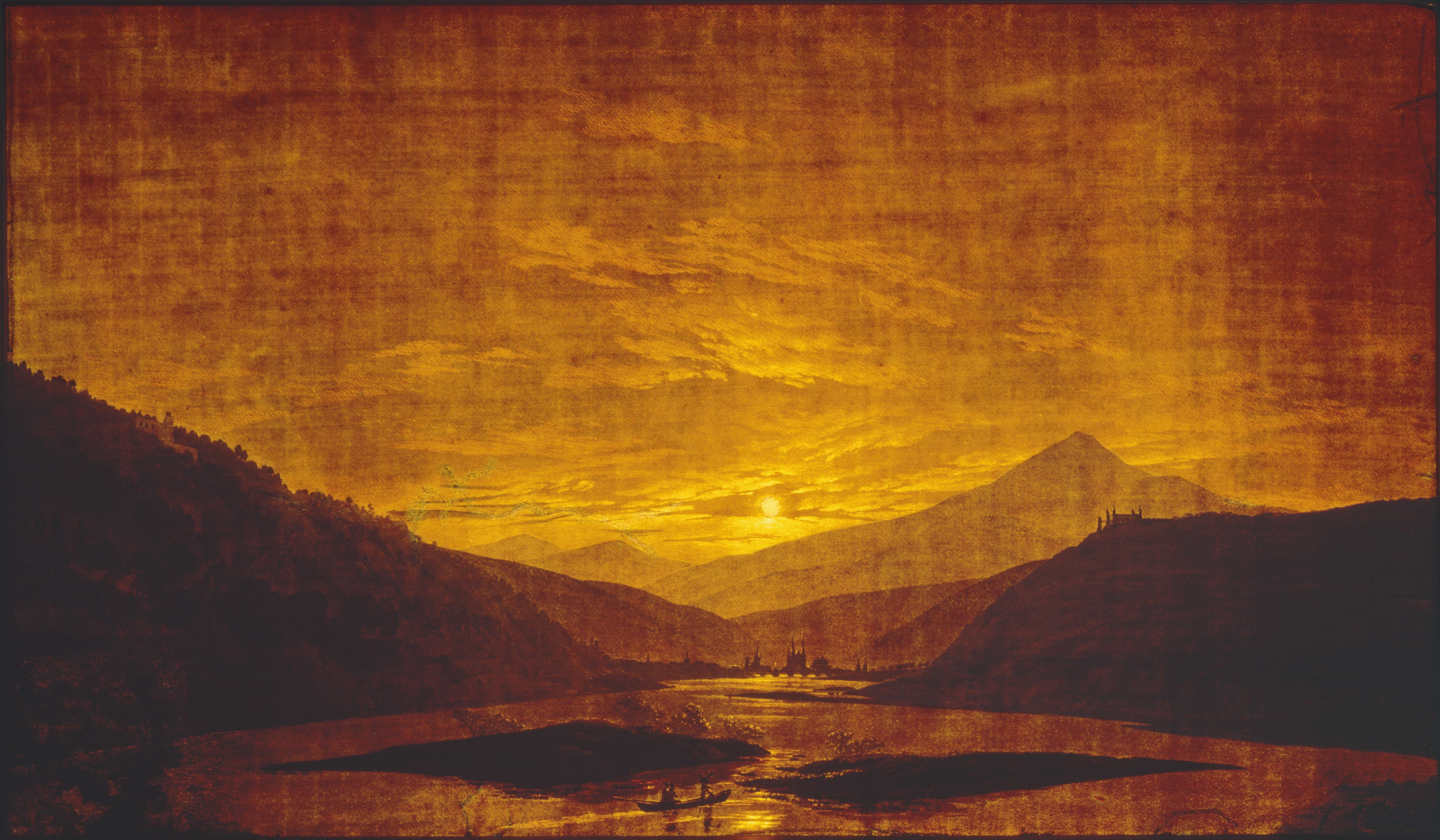 River landscape in the morning and at night, painted two-sided (here the motif "night")